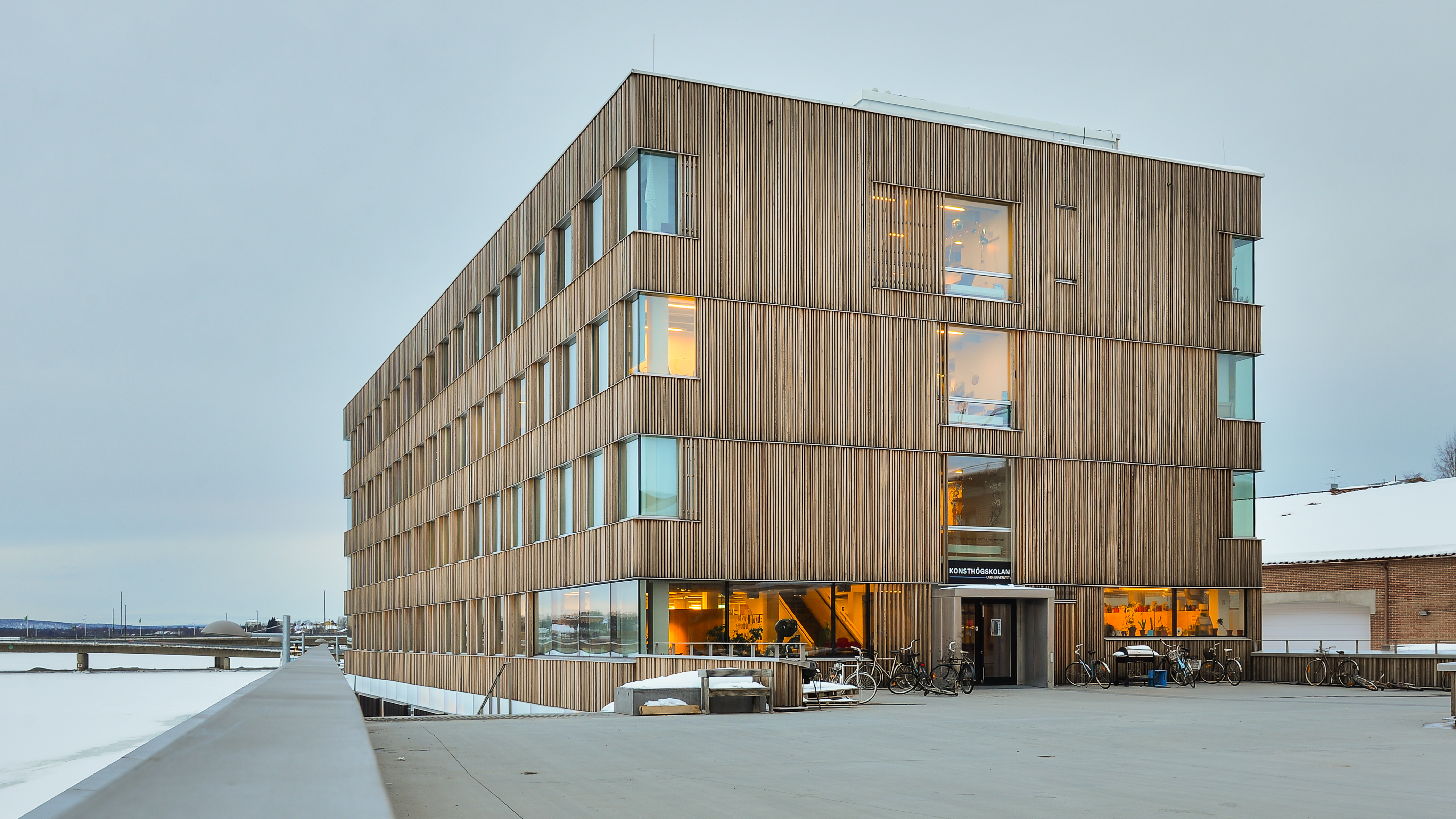 Umeå Academy of Fine Arts. Architects: Danish Henning Larsen Architects in cooperation with Swedish White arkitekter. Part of the new Arts Campus in Umeå. Official name: Konsthögskolan vid Umeå universitet.